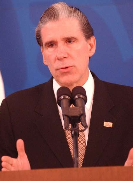 Cropped picture of Julio Frenk, Mexican Secretary of Health.